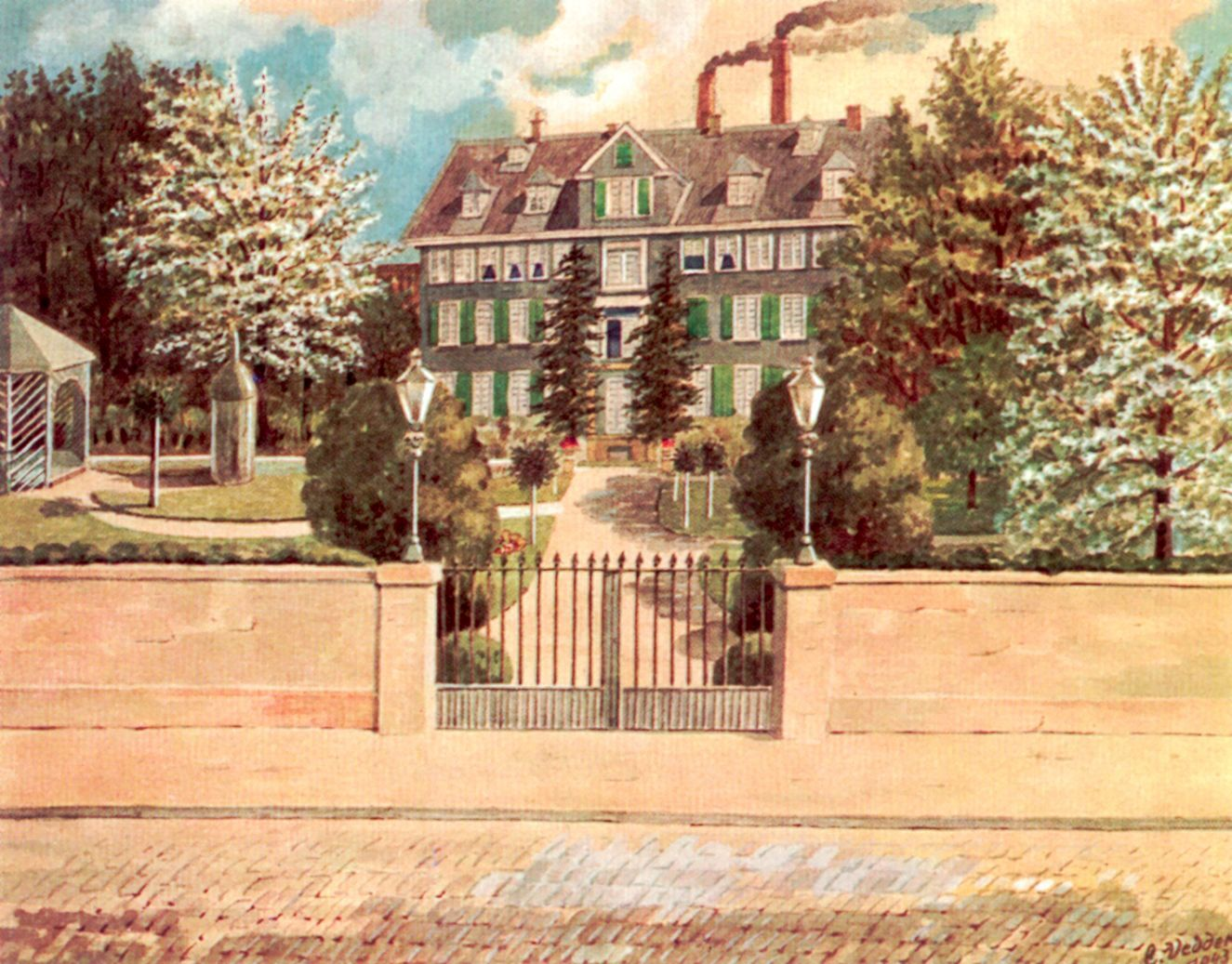 Residence and factory building of the Julius and August Erbslöh families in Barmen-Wupperfeld (today: Wuppertal). Painting C. Vedder, 1843